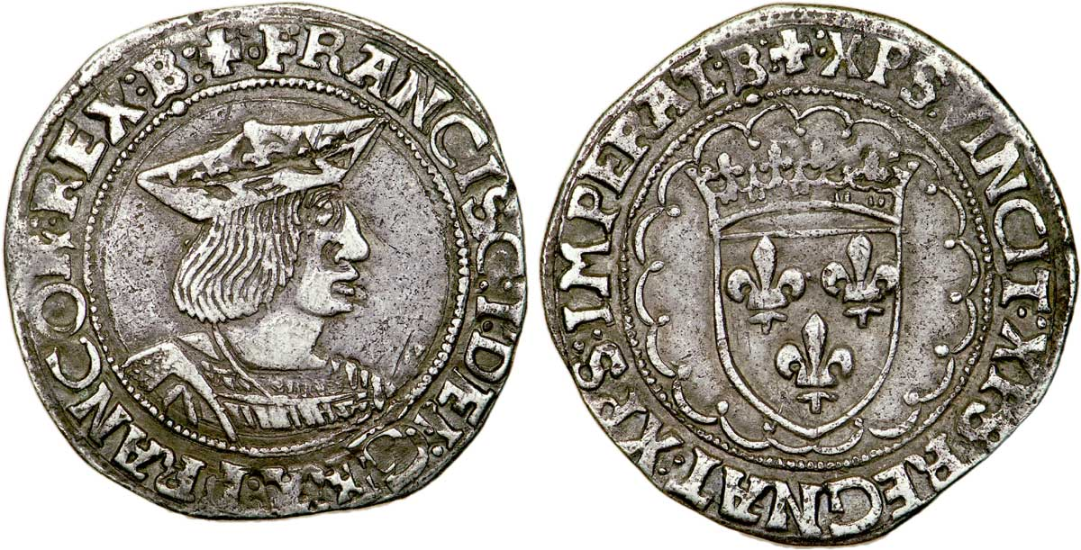 Demi-teston à l'effigie de François I le Restaurateur des Lettres, Bourges